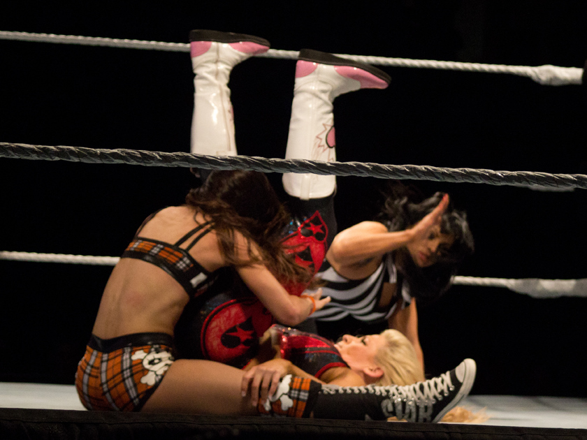 AJ rolls-up Natalya at a WWE house show on January 7, 2012. Cropped from original.